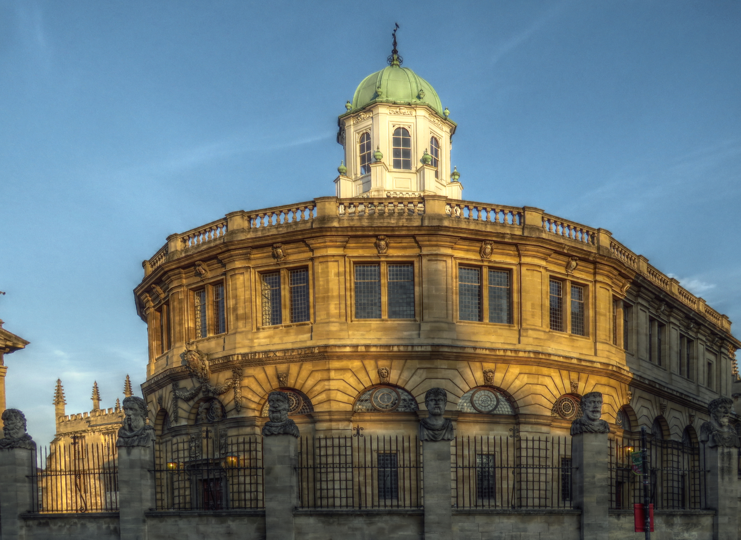 High dynamic range image of the Sheldonian Theatre building in Oxford, photographed just before sunset.